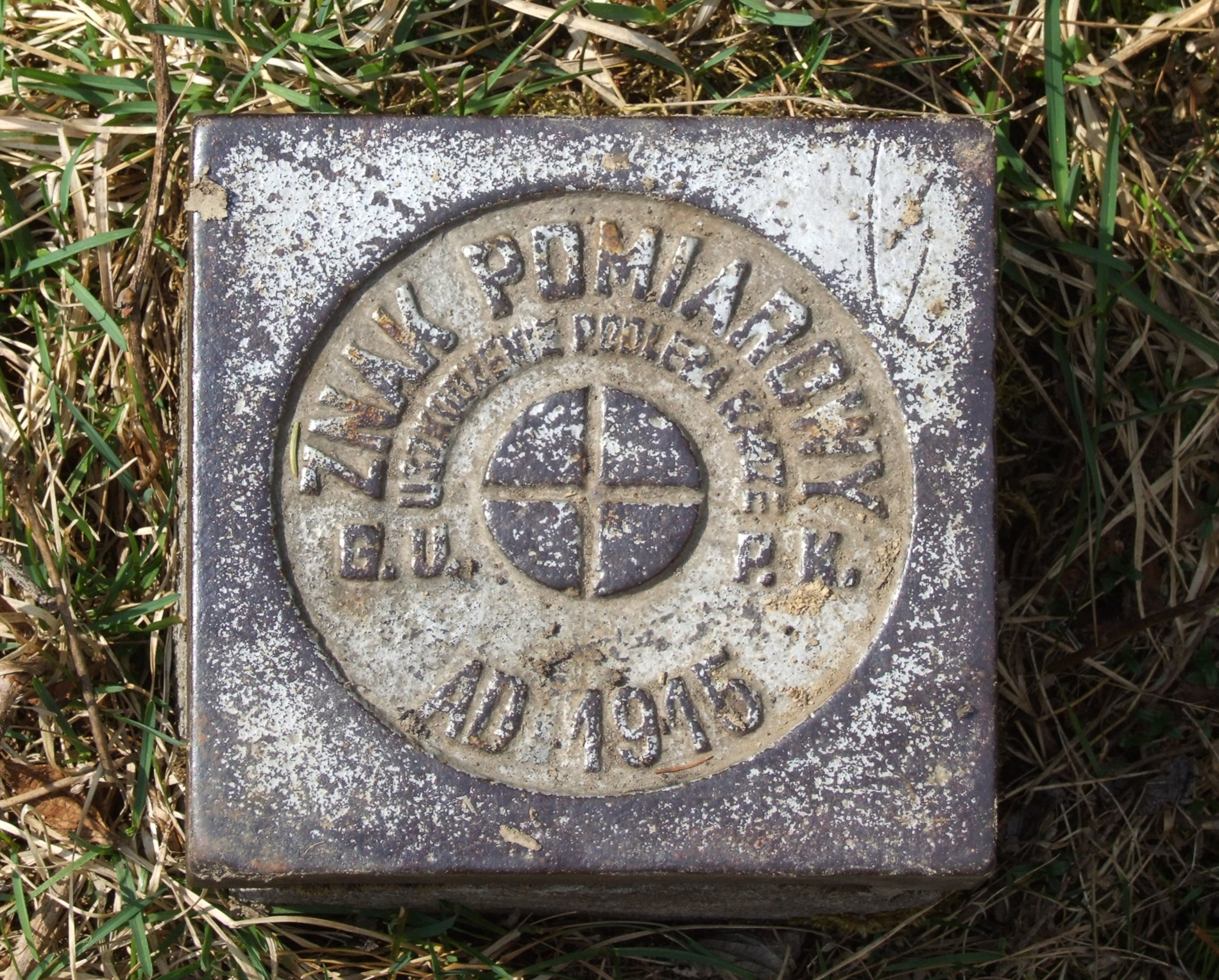 Gorc peak in Gorce mountain - trig point